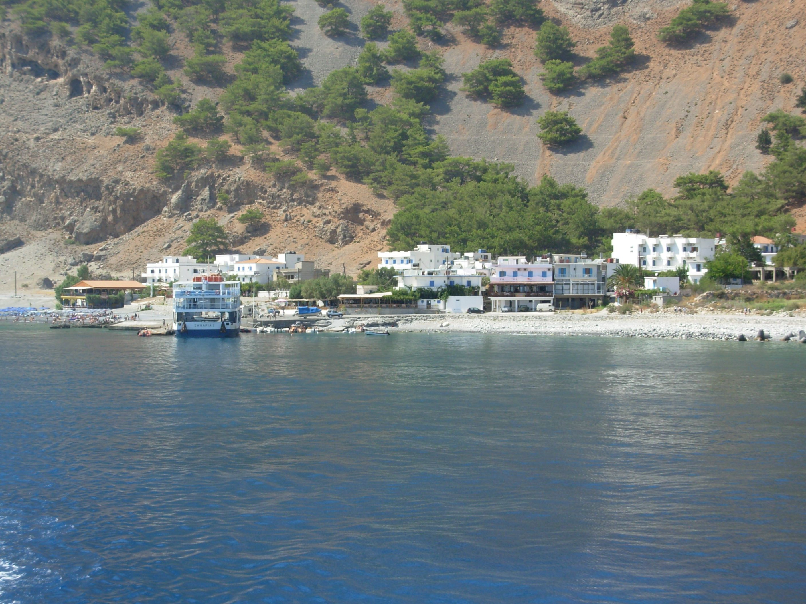 Vilage of Agia Roumeli in southern Crete at the southern entrance to the Samaria Gorge, pictured from a ferry.